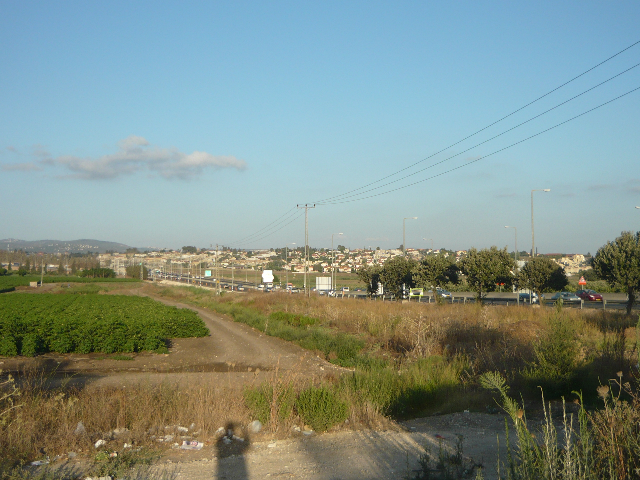 ramat yishay from alonim מראה כללי של רמת ישי, מבט ממרכז הקניות אלונים